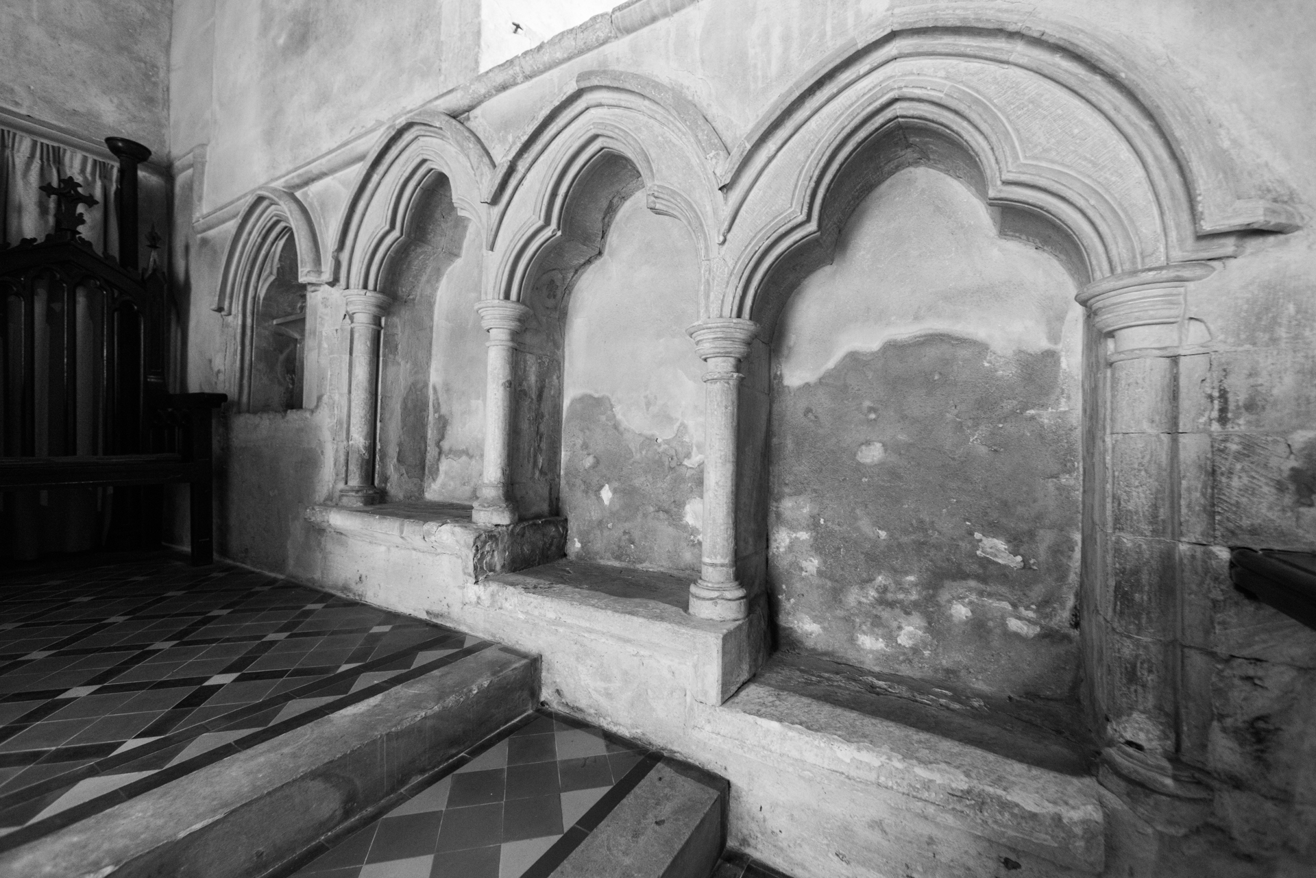 A three level Sidilia and Piscina, Nave built approx. 1180, Chancel was re-built in C13. St Mary's, Buriton, England. Image taken 2017.